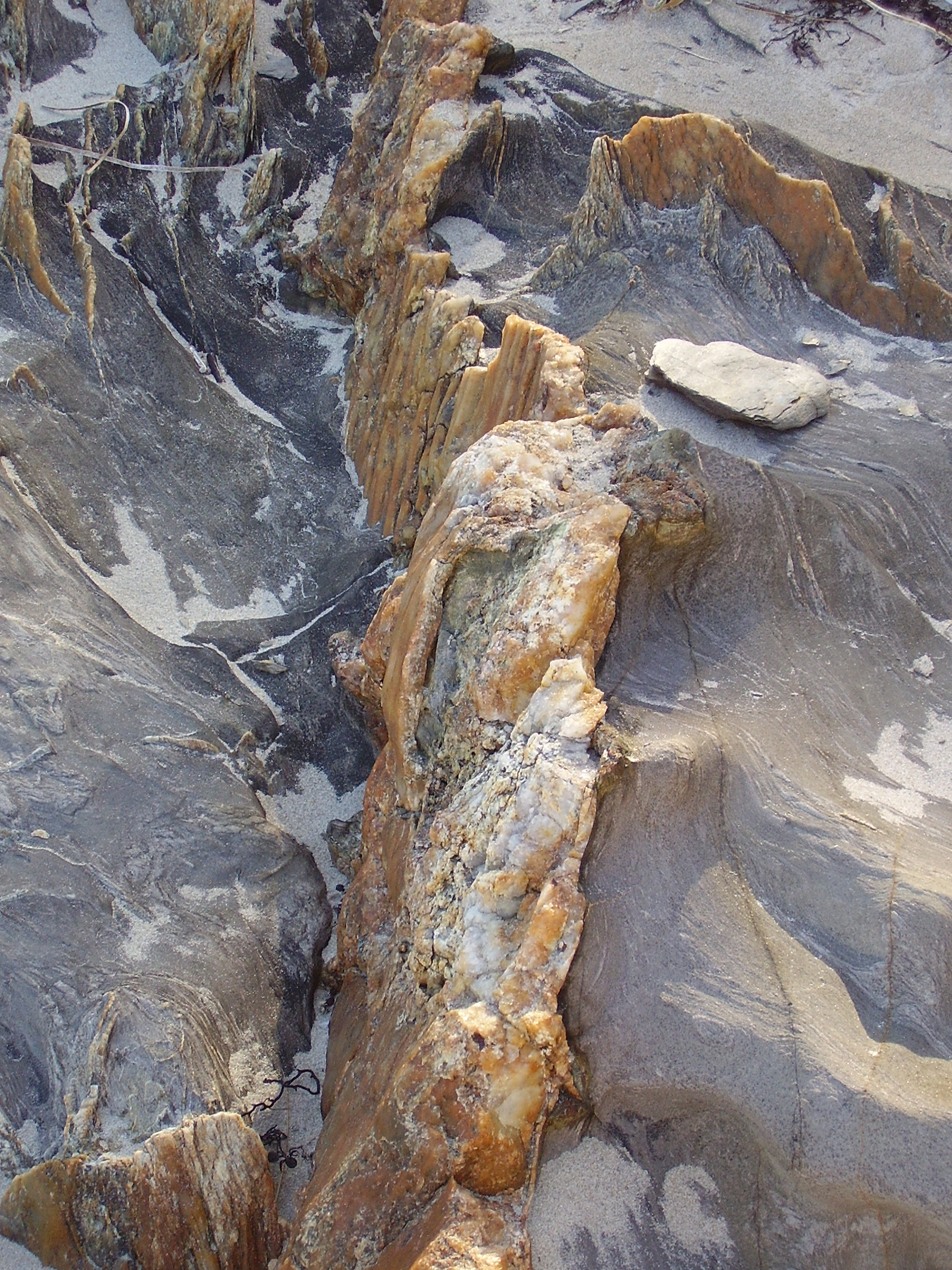 Quartz vein in (possibly basalt). On a beach near Cape Jervis, South Australia